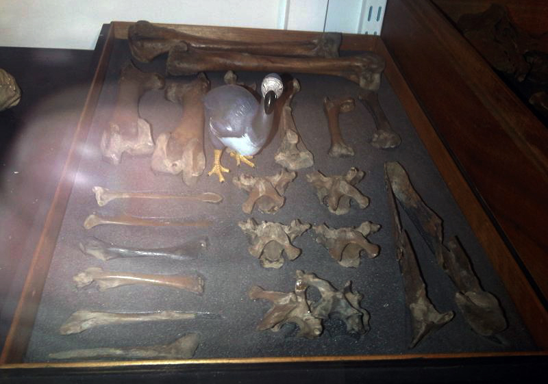 Dodo (Raphus cucullatus) bones and model in Grant Museum of Zoology, London, England.